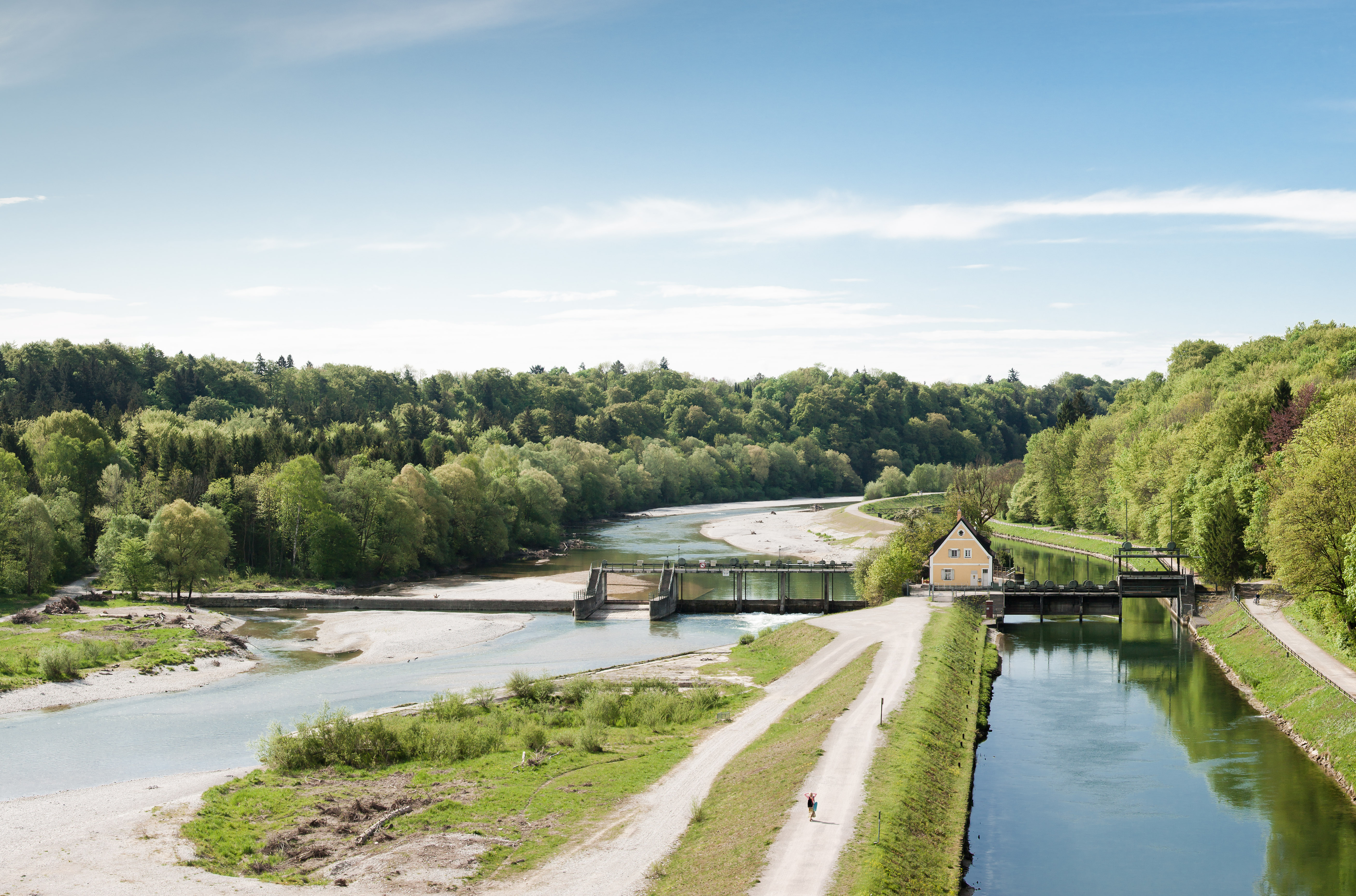 Wehranlage Grosshesselohe, Munich, Germany